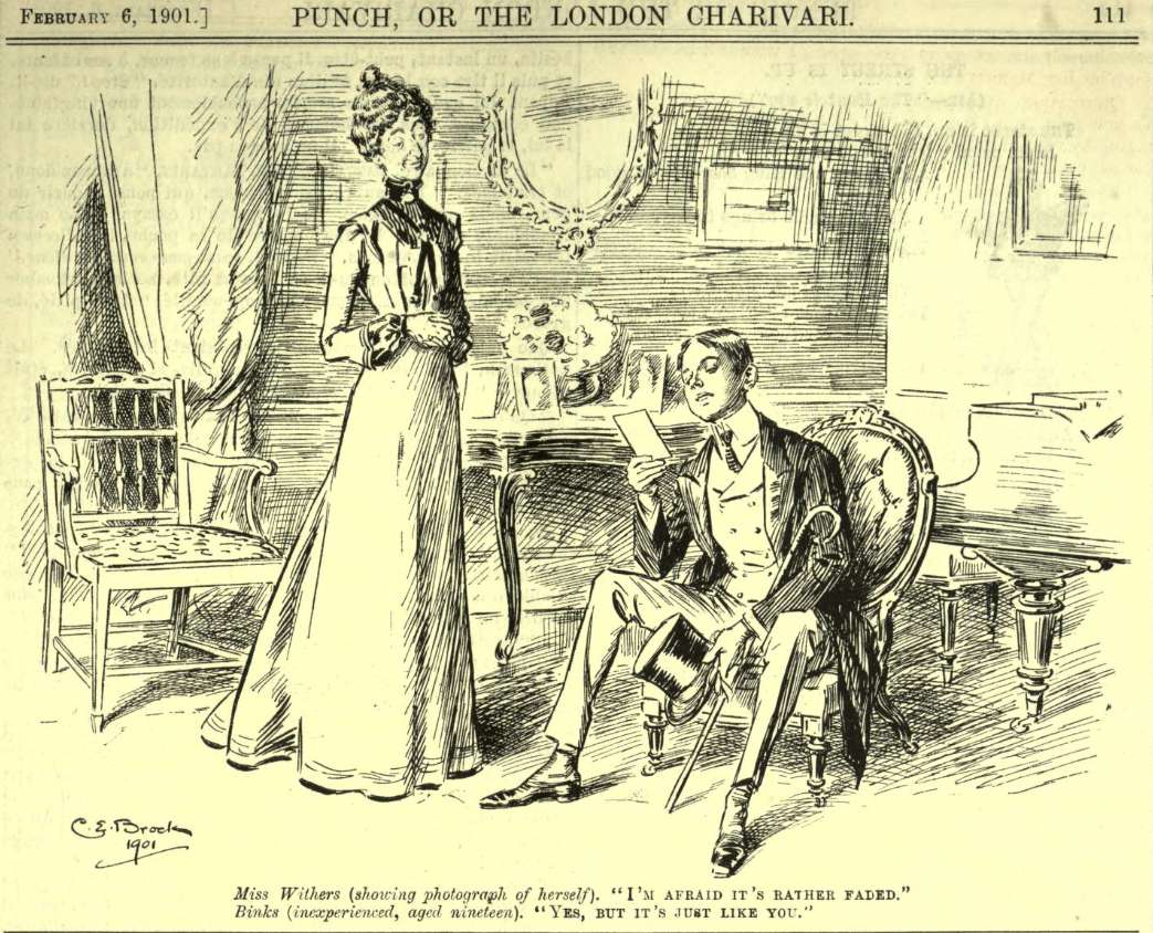 Illustration by Charles Edmund Brock for Punch 06 February 1901. This was the first illustration that Charles Brock had published in Punch